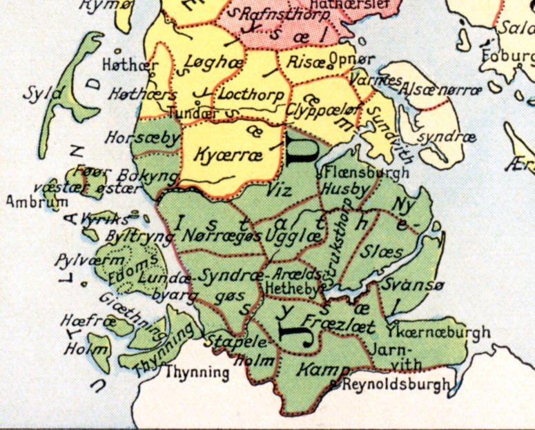 Istedsyssel, Denmark - an area today corresponding to Südschleswig, Germany